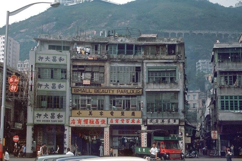 The Wo Cheong Pawn Shop was built within 1888 and the 1900s. It consists of 4 consecutive Tong Lau (Chinese Tenements) with balconies in front. It was now revamped and revitalized into The Pawn, a project initiated by the Urban Renewal Authority.